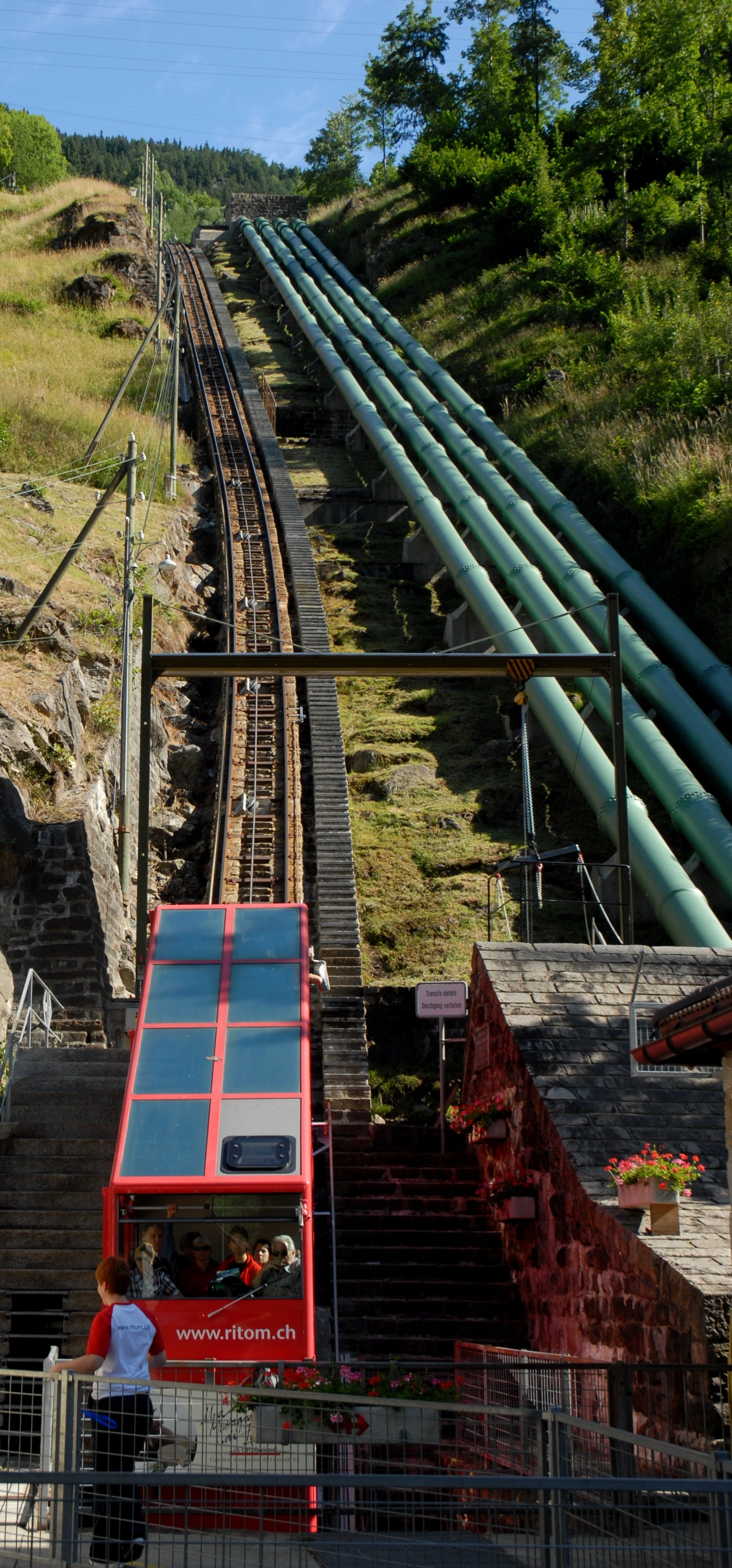 View looking up from the lower station of the Ritom funicular in the Swiss canton of Ticino. For more information, see the Wikipedia article Ritom funicular.